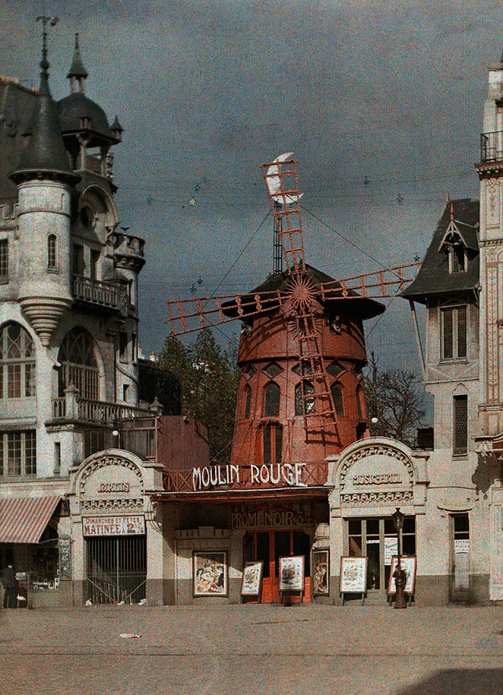 The Moulin Rouge, Paris in color 1914